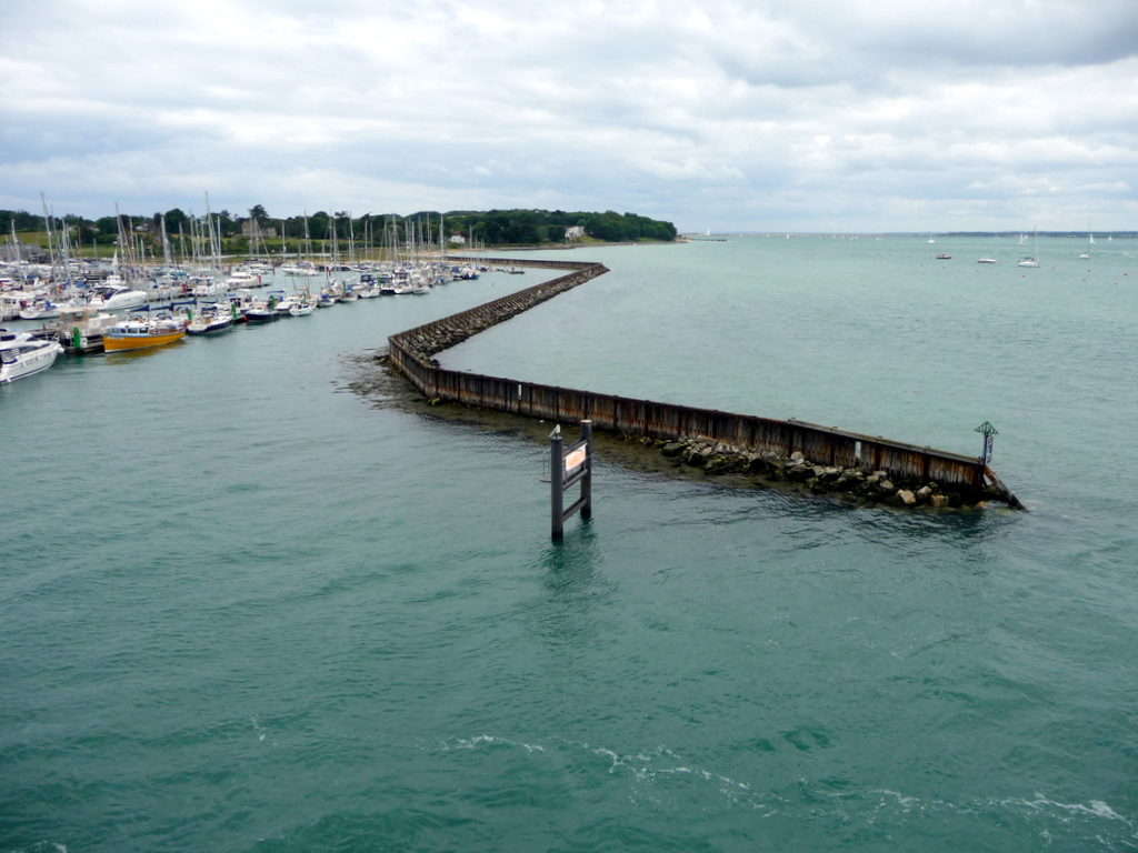 Yarmouth Harbour, Isle of Wight Yarmouth Harbour as seen from the Wightlink ferry.